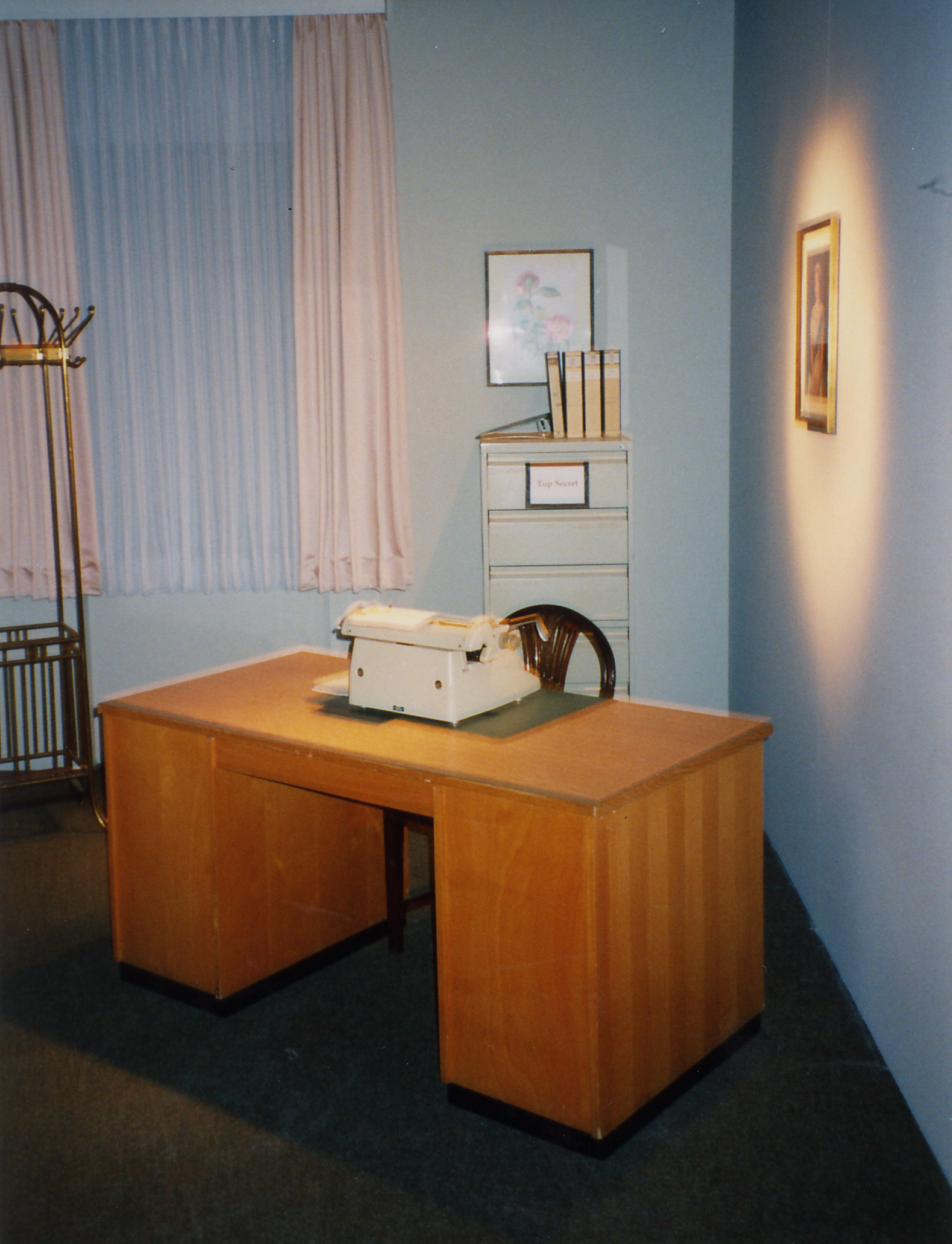 Miss Moneypennys secretary's office at a exhibition Aug, 1998